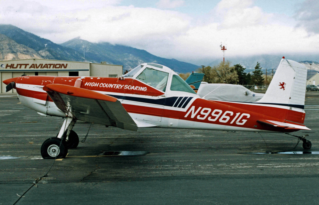 Cessna A188A AGwagon N9961G at Minden, Nevada, in use as a sailplane tug